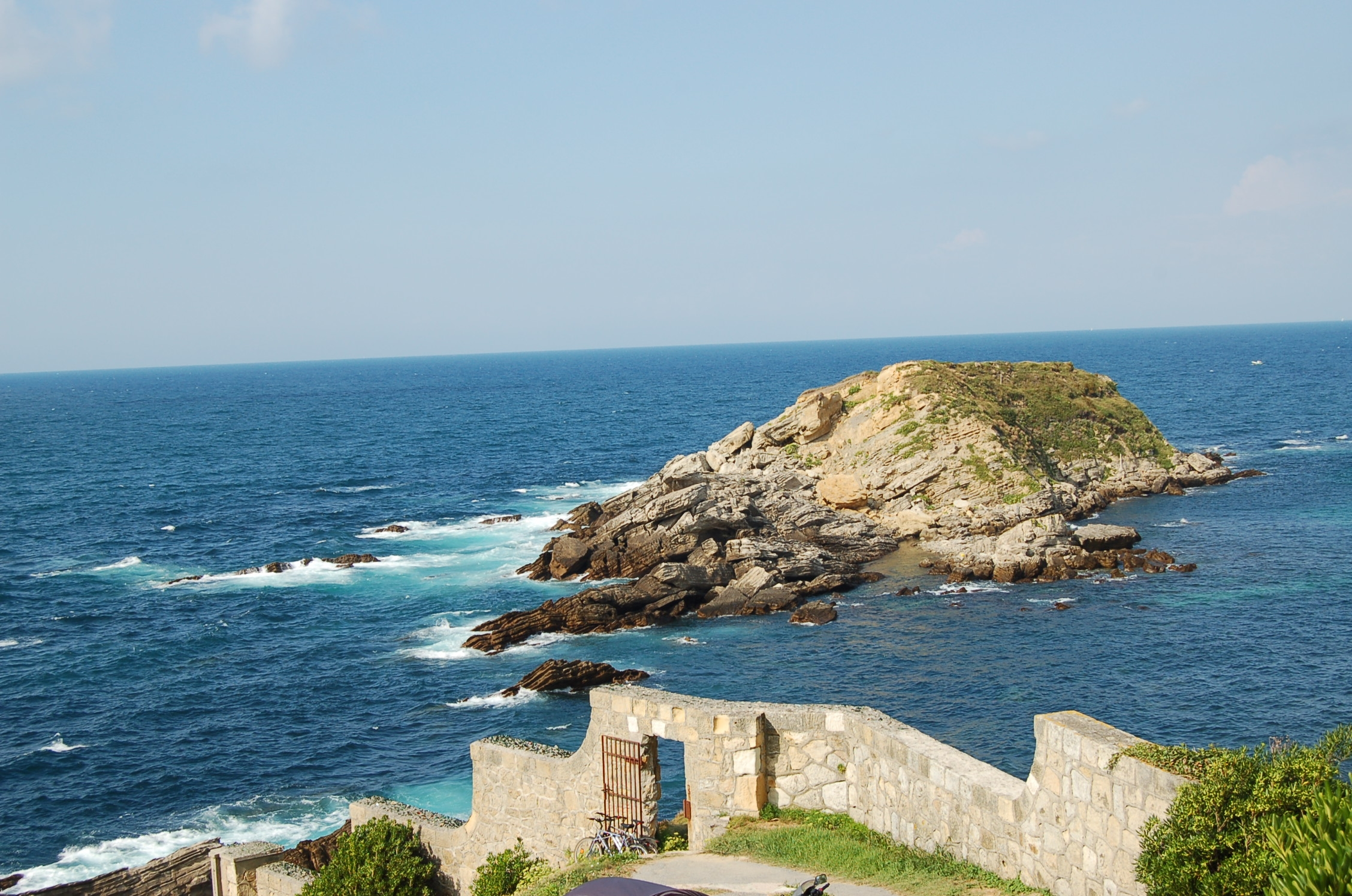 Coast below Cabo de Higuer, near Hondarribia (Basque Country, Spain). Taken from the Campsite Faro de Higuer.